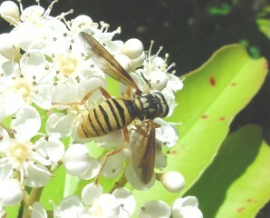 Syrphid fly on Photina